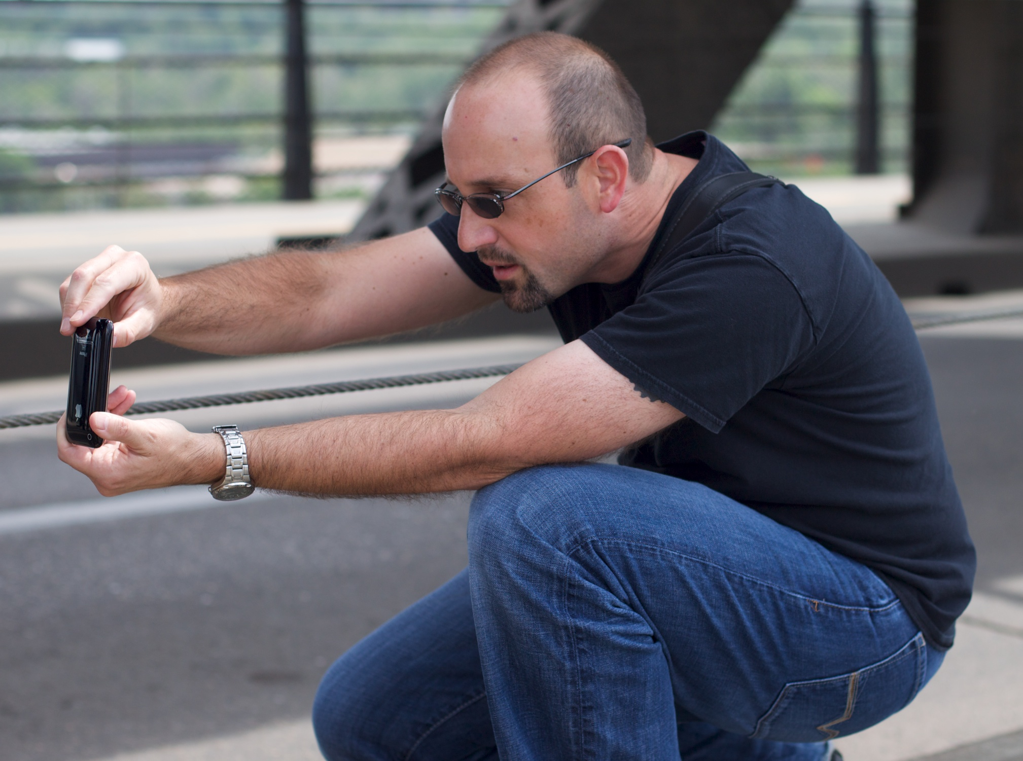 A man wearing a black T-shirt and jeans crouches down to take a picture with his smartphone.